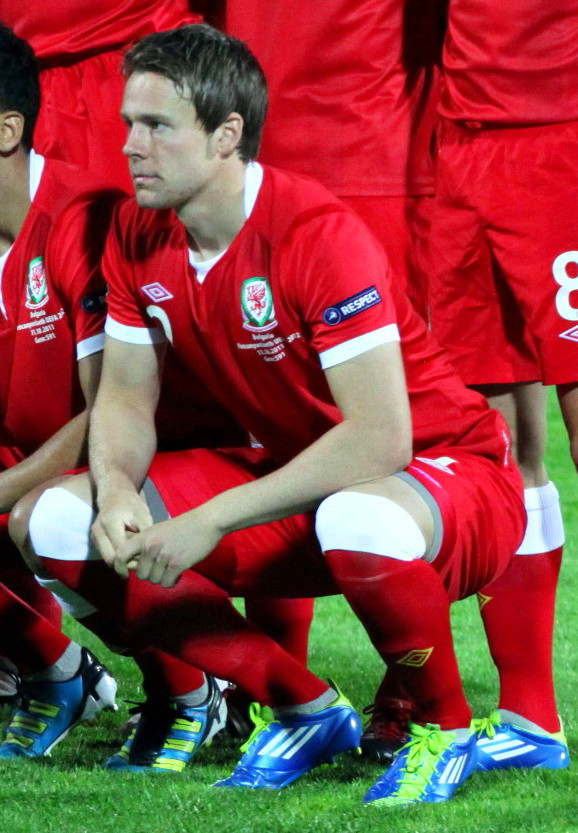 Wales national football team in 2011